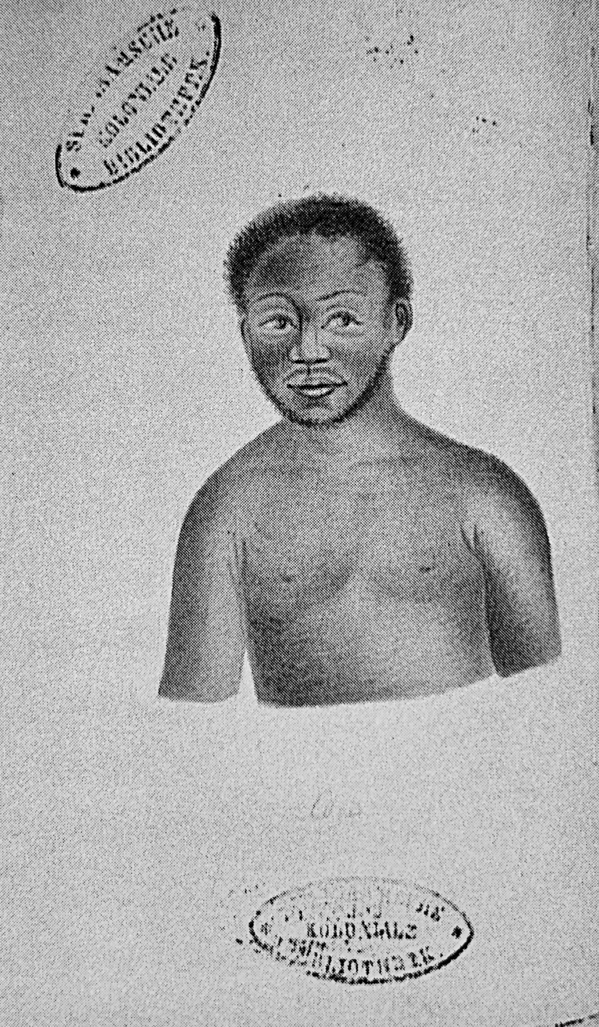 Cojo (Kodjo) was one of the three men who were convicted for the great city fire of Paramaribo (1832). The fire destroyed in a short time about 50 houses and the Lutheran church. The complete drawing includes the the portraits of the two other convicts Mentor and Present and was made by the Surinamese artist Gerrit Schouten on January 24, 1833 and was later found among the papers of the President of the Court of Justice, judge Adriaan François Lammens.